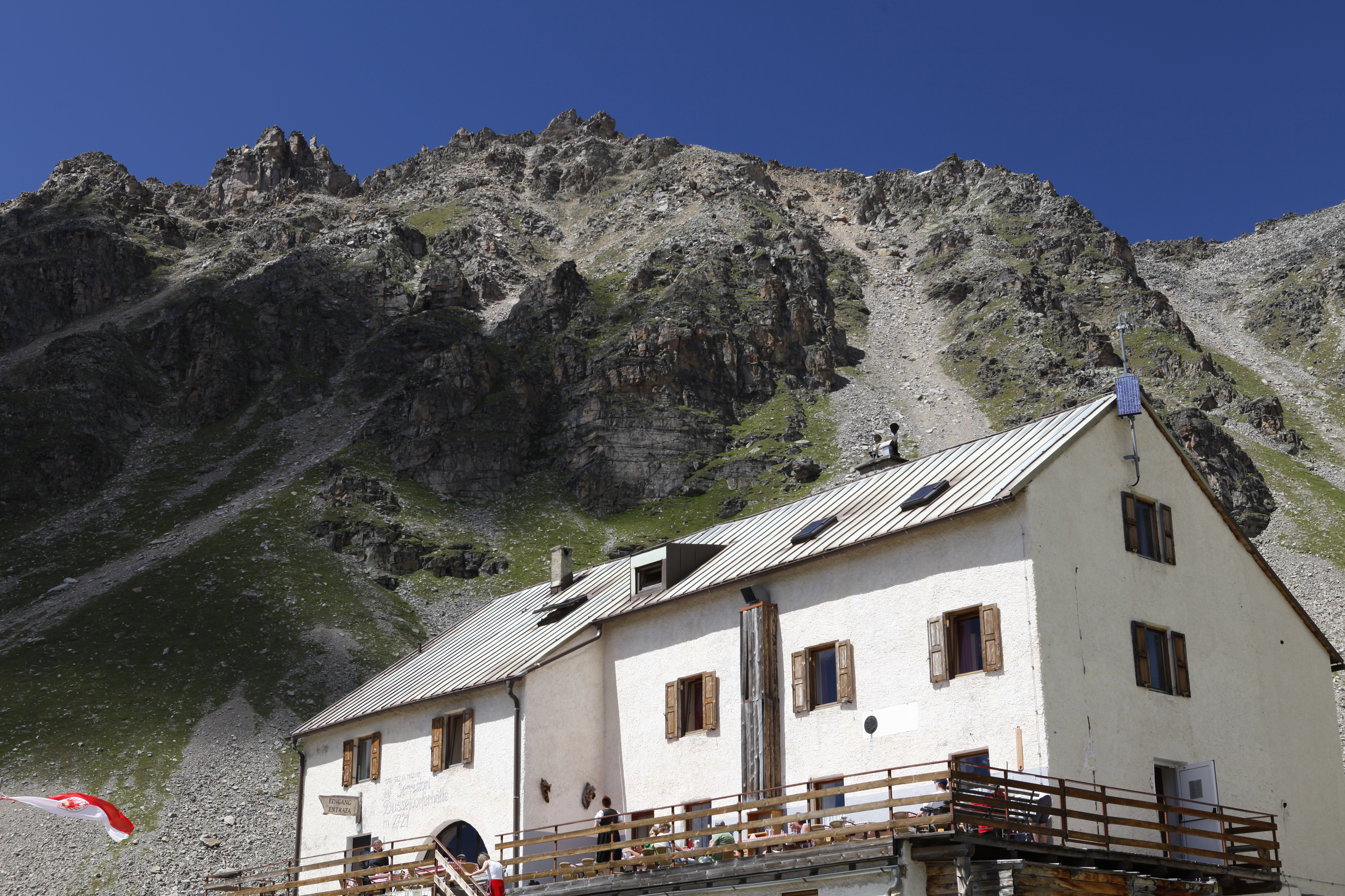 Rifugio Serristori located in front of Dosso Bello di Dentro mountain, in Italian Alps (Parco Nationale dello Stelvio).